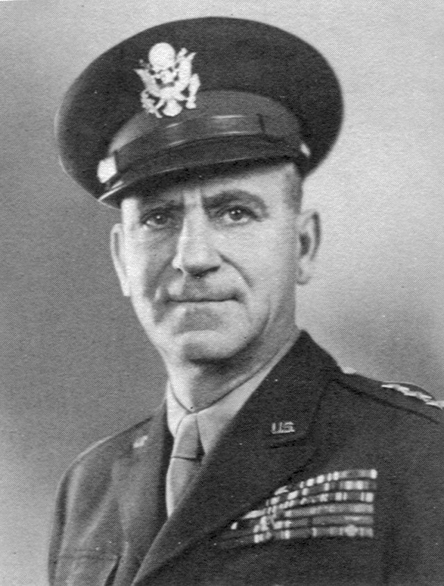 Leonard Townsend Gerow (July 13, 1888 – October 12, 1972) was a United States Army General, who commanded V Corps and U.S. Fifteenth Army during World War Two.